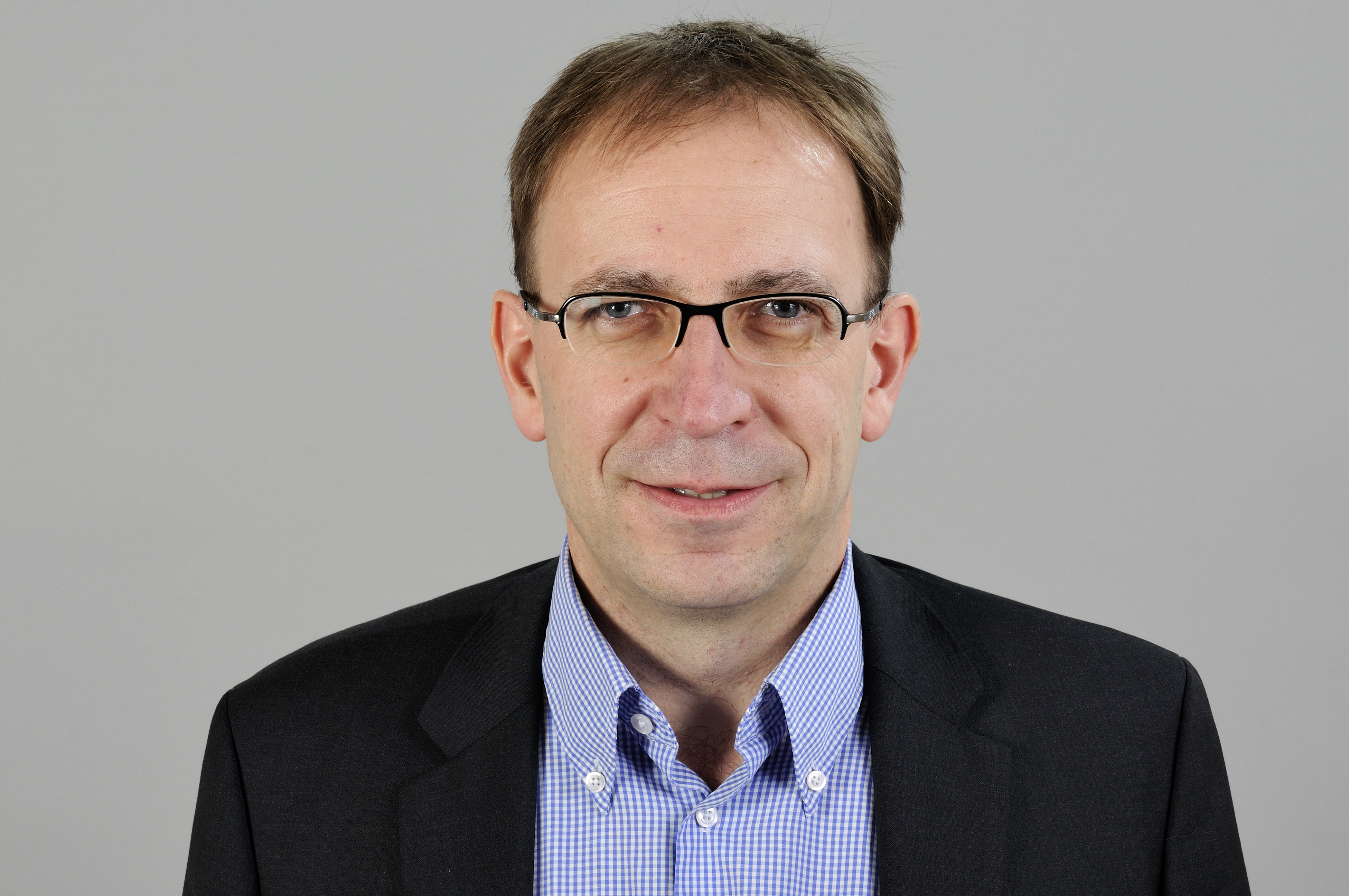 Heiko Thomas, Berlin politician (Bündnis 90/Die Grünen) and member of the Abgeordnetenhaus of Berlin (as of 2013).